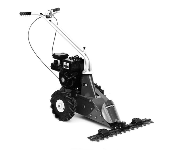 Tielbürger Motormnäher t45